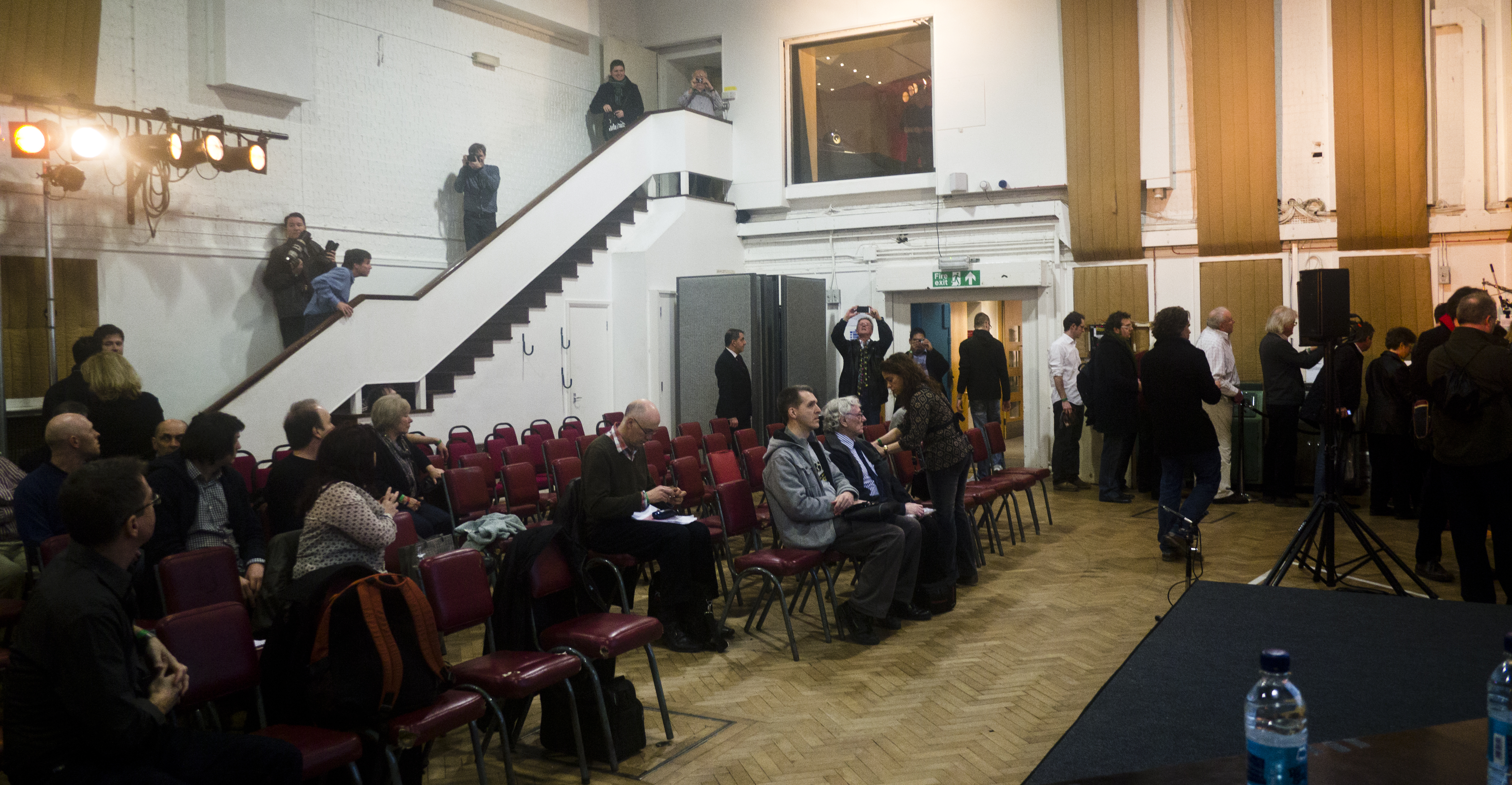 Abbey Road Studios opens its doors to the public, 80th Anniversary, March 9, 2012[1]